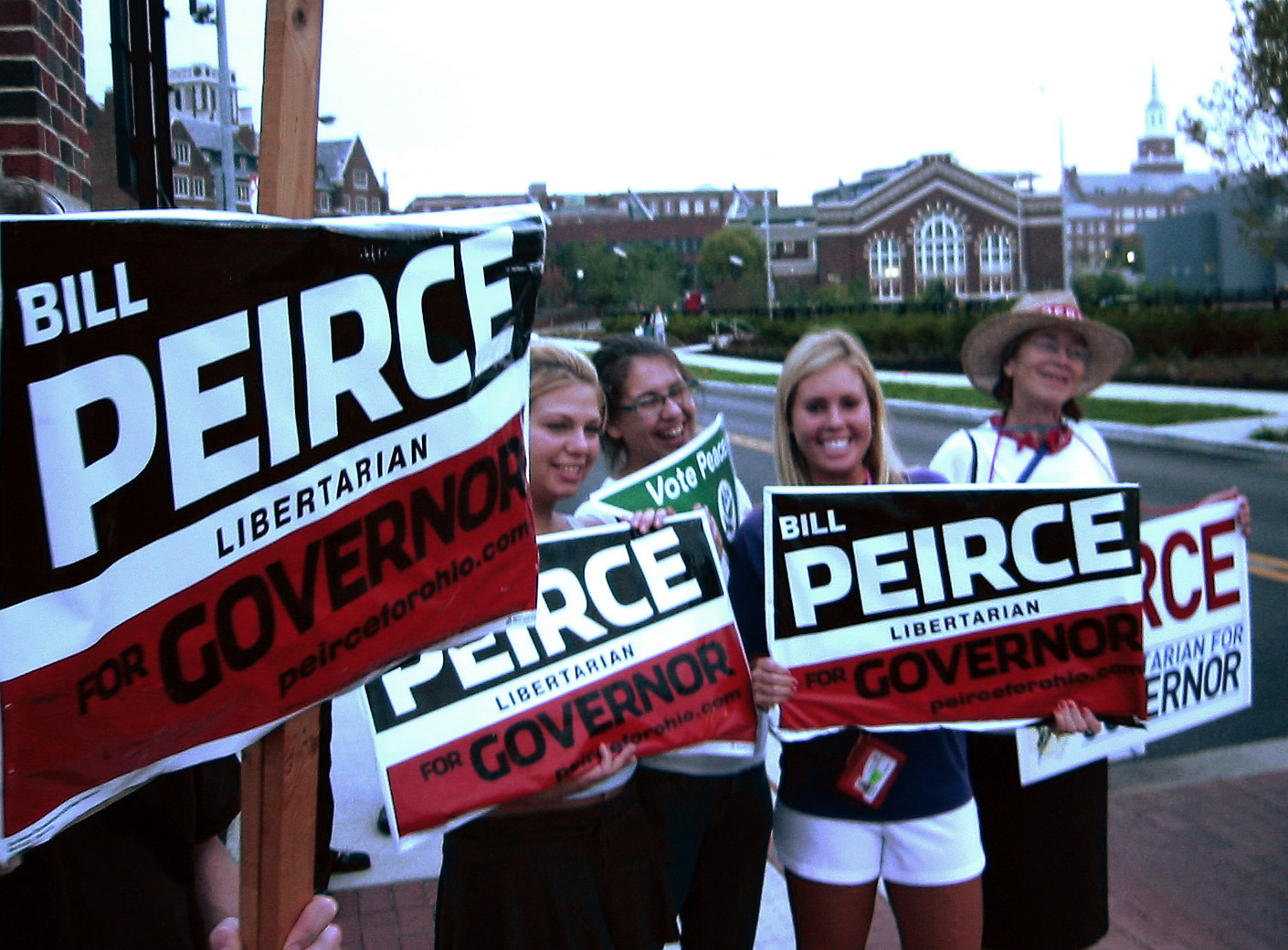 Protesting his exclusion during the governor debates at the University of Cincinnati, Peirce supporters were kept away from news media and the auditorium by campus police. Several students were able to speak with Bill personally, as opposed to hearing the dry rhetoric and barbs being thrown around inside the debate.Bill Peirce at UC Debates